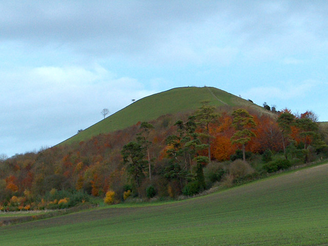 The Devil's Grave Looking up from the bridleway east of Oare.